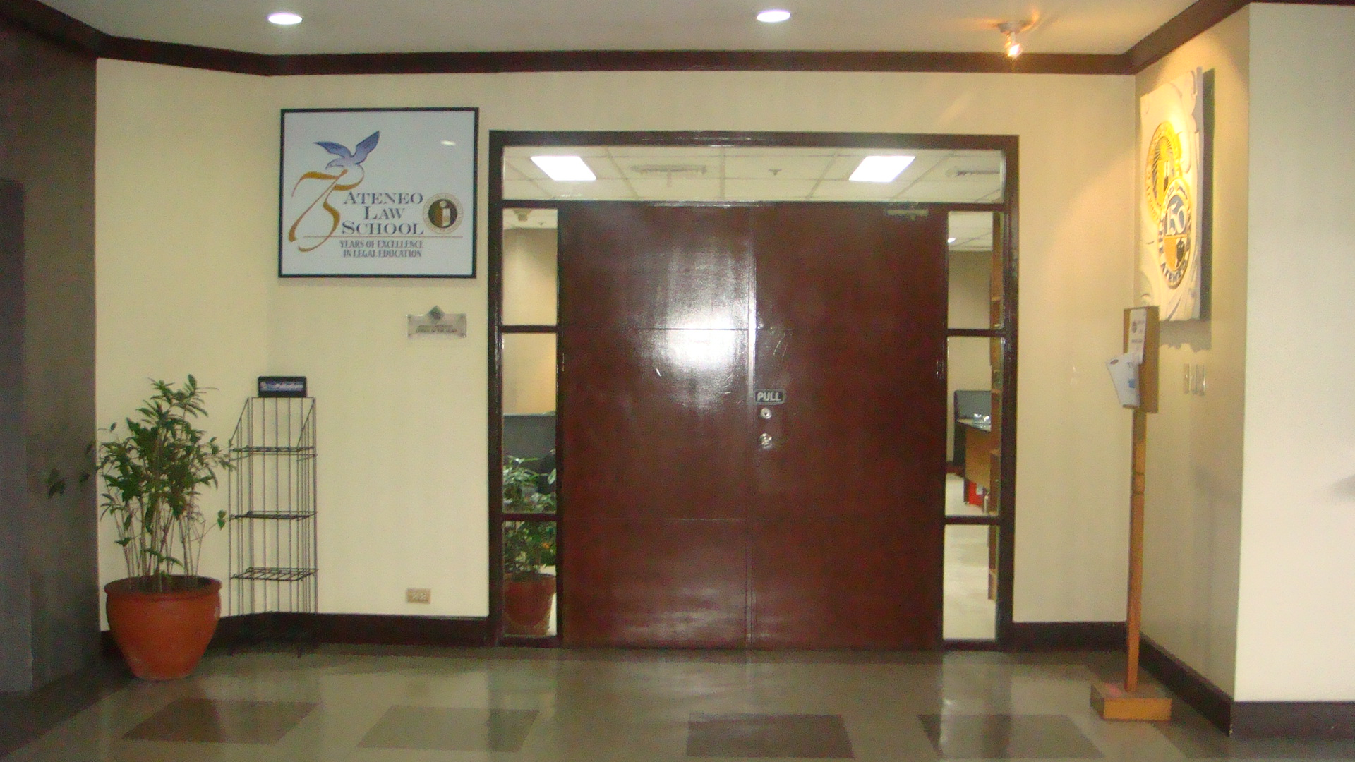 Sedfrey M. Candelaria[1], A.B., LL.B., LL.M. Dean of the Ateneo Law School in Makati City, Philippines, Ateneo Law School, 1984, from Pililia, Laguna (British Columbia[2]